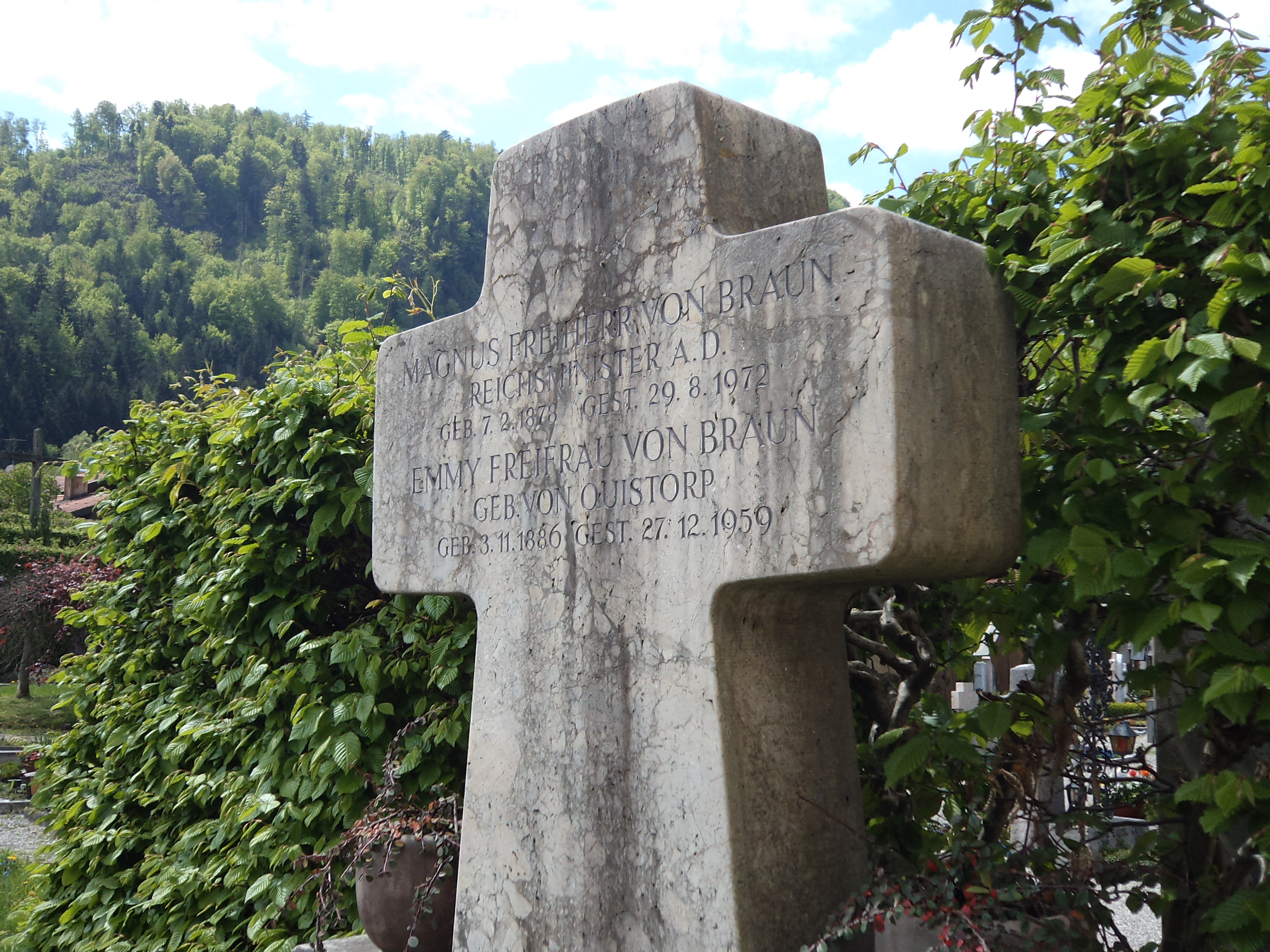 Gravesite of Emmy and Magnus von Braun, former German jurist and politician in Oberaudorf, Germany.